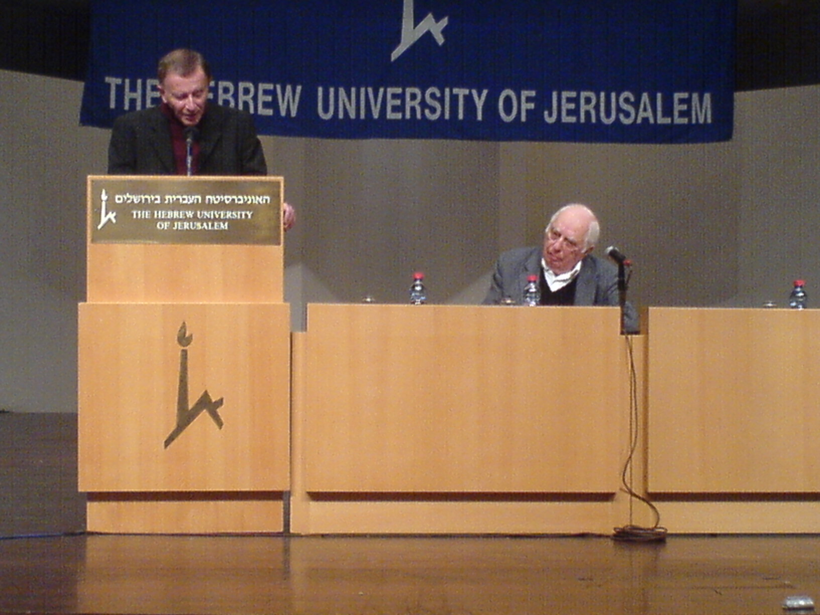 Robert S. Wistrich introduces Bernard Lewis, Hebrew University of Jerusalem, January 2007.